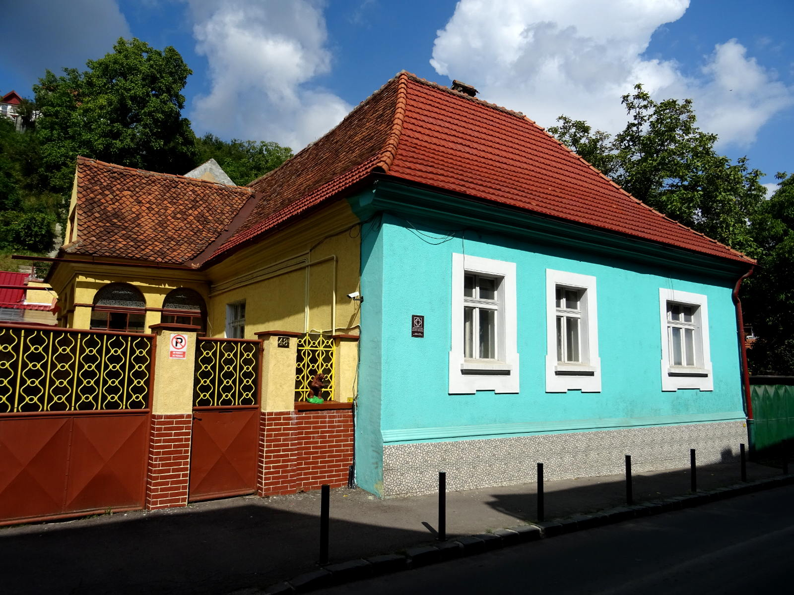 Brâncoveanu street in Brașov, house number 48